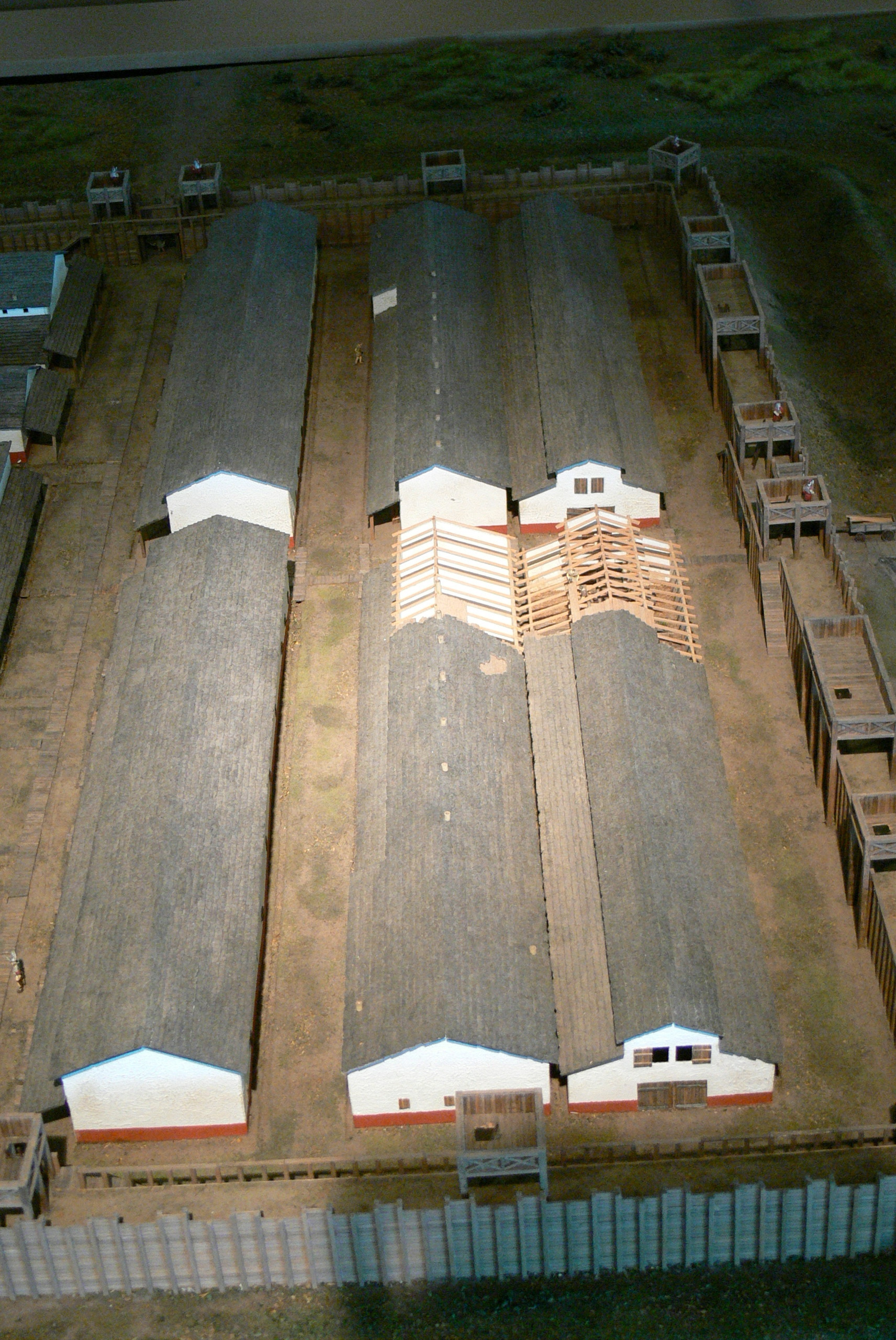 Celtic Museum Manching ( Bavaria ). Modell of the ancient Roman fortification ( 50s AD ) at Oberstimm - Barracks.